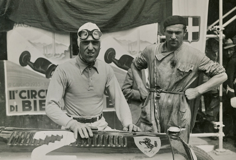 Tazio Nuvolari and Alfa Romeo P3 (of the Scuderia Ferrari team) were WINNERS at Circuito di Biella on 9 June 1935. [1]